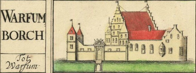 Borg Asinga of Warffumborg te Warffum